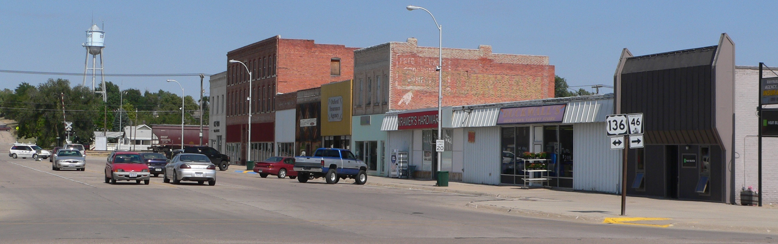 Downtown Oxford, Nebraska: east side of Ogden Street, looking northeast from about Cornwall Street.